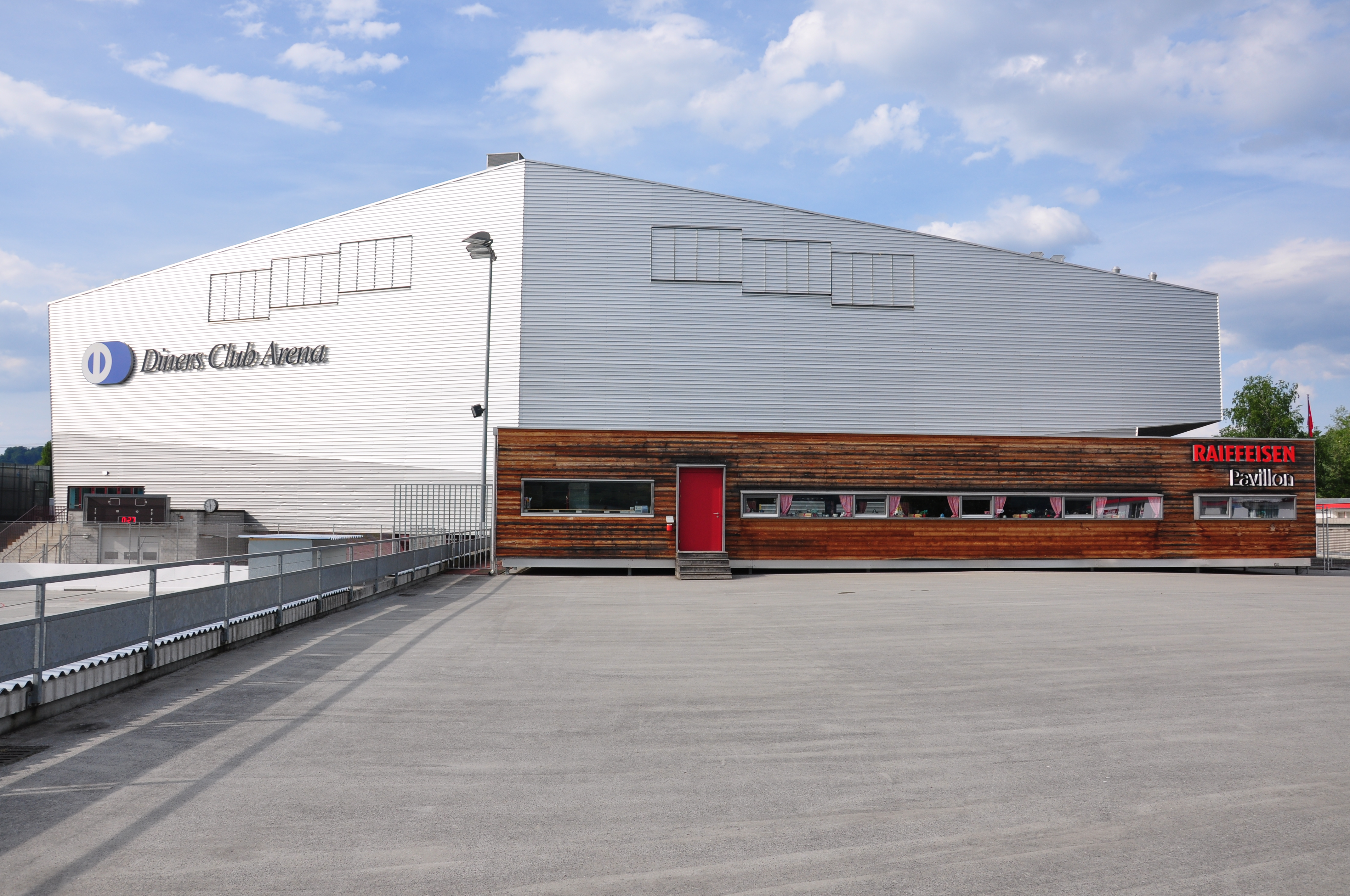 Rapperswil (SG) : Diners Club Arena situated in Südquartier on upper Lake Zurich shore